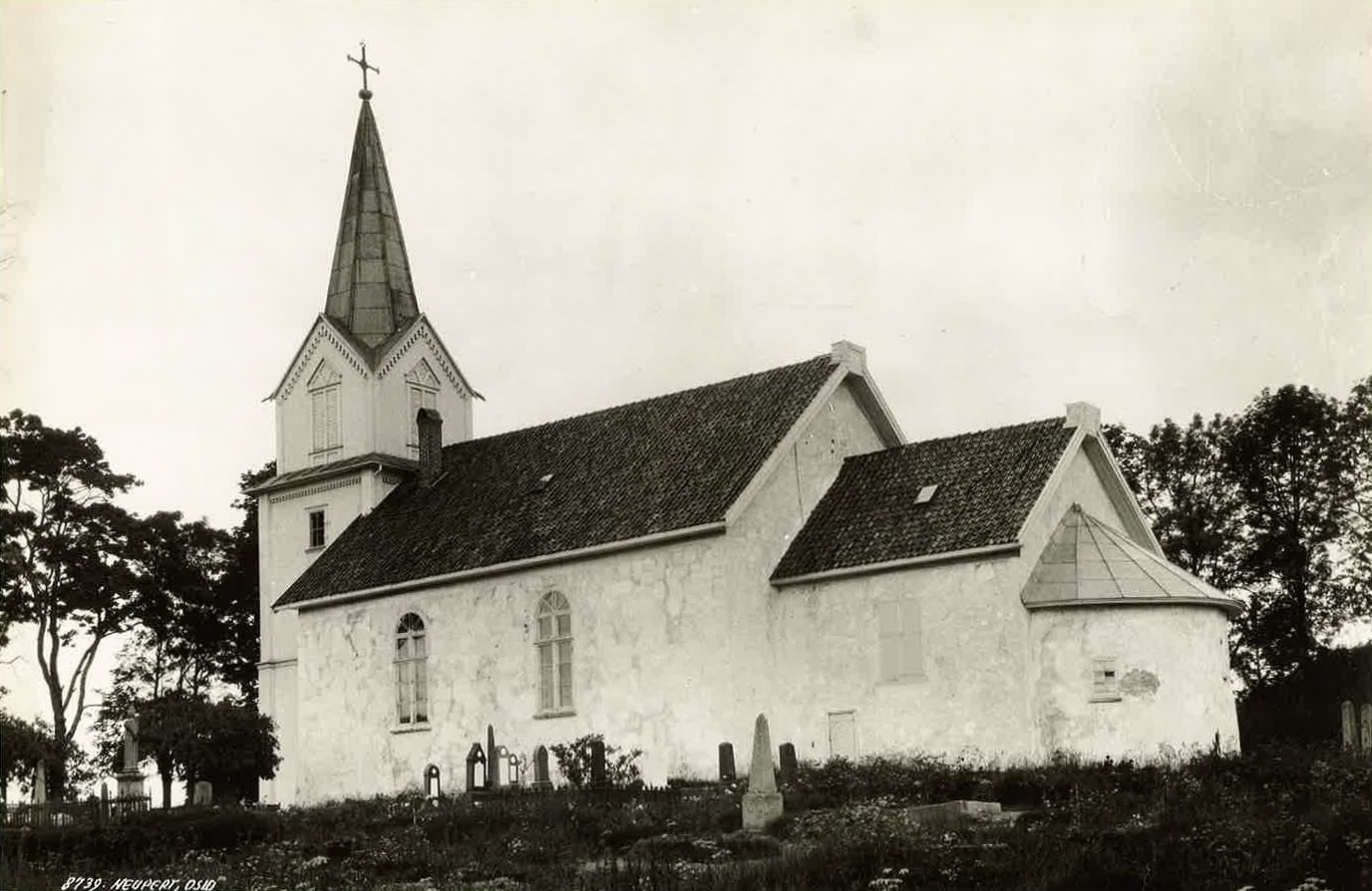 Hurum medieval stone church (12th century)